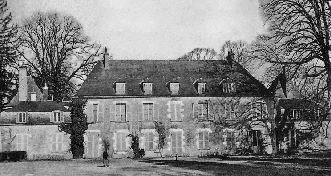 Castle Beauclair (Morville-en-Beauce)